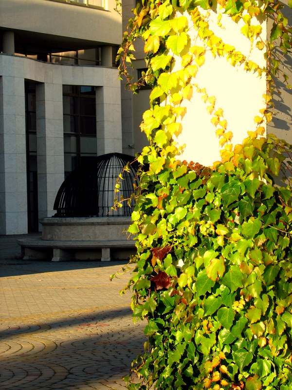 Courtyard of European College at Gniezno, Adam Mickiewicz University, Poland.